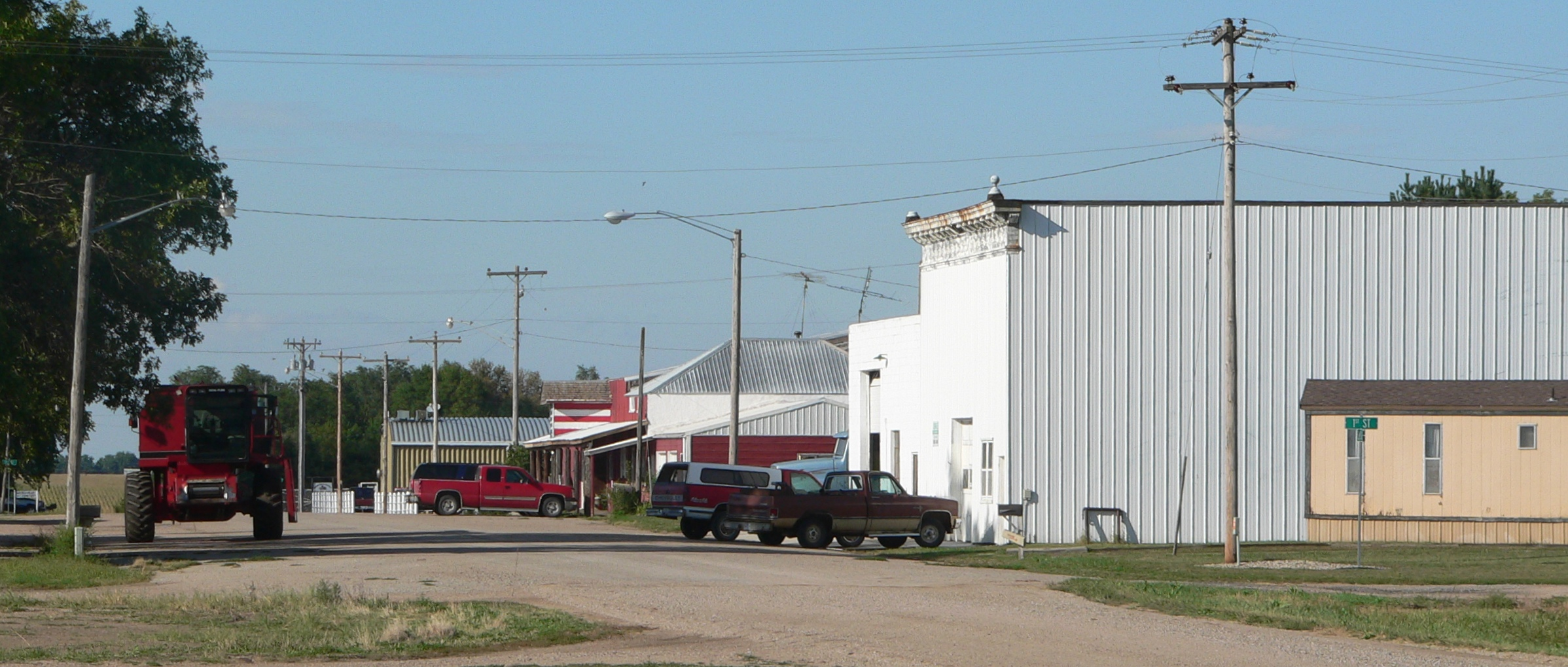 Cornlea, Nebraska: Elm Street, looking north from about 1st Street.